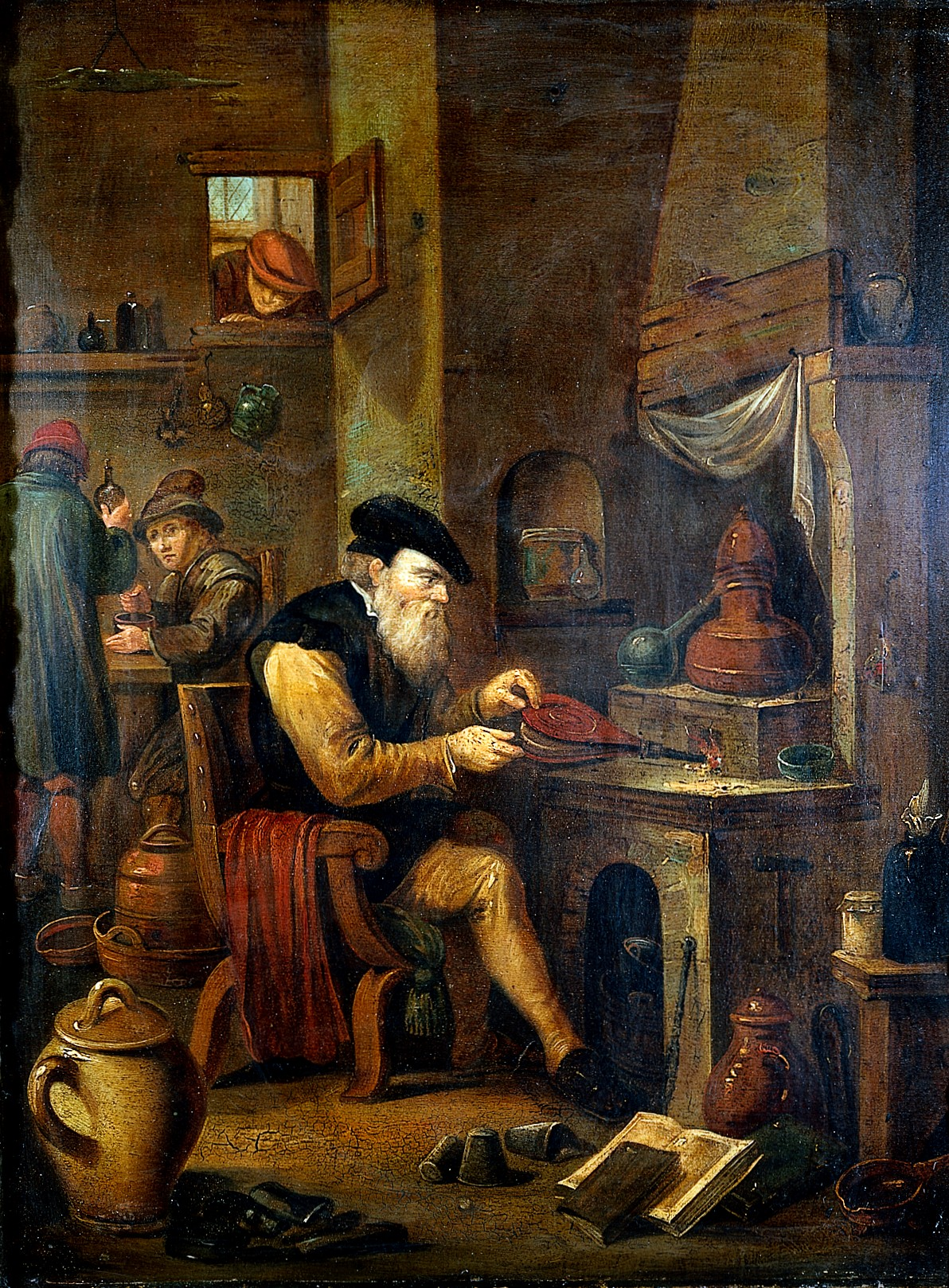 An alchemist in his laboratory. Oil painting by a follower of David Teniers the younger. Iconographic Collections Keywords: Alchemy; David Teniers; David Teniers